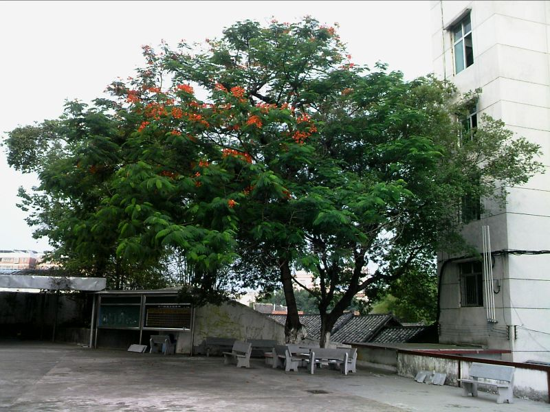 Shuizhai High School